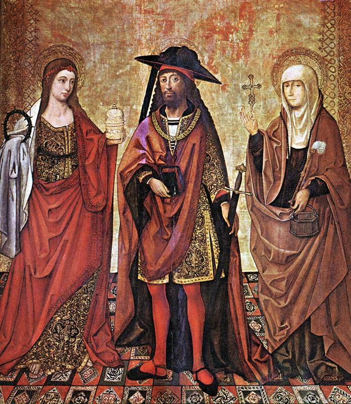 St Lazarus between Martha and Mary.